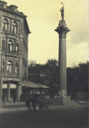 Central Hotel or Centralhotellet with Café Paraplyen, defunct and demolished hotel at Rådhuspladsen 16/Vesterbrogade 2A, Copenhagen (1874-1934). In 1901, a wooden column by Martin Nyrop with sculpture by Anders Bundgaard was temporarily erected in front of the hotel.